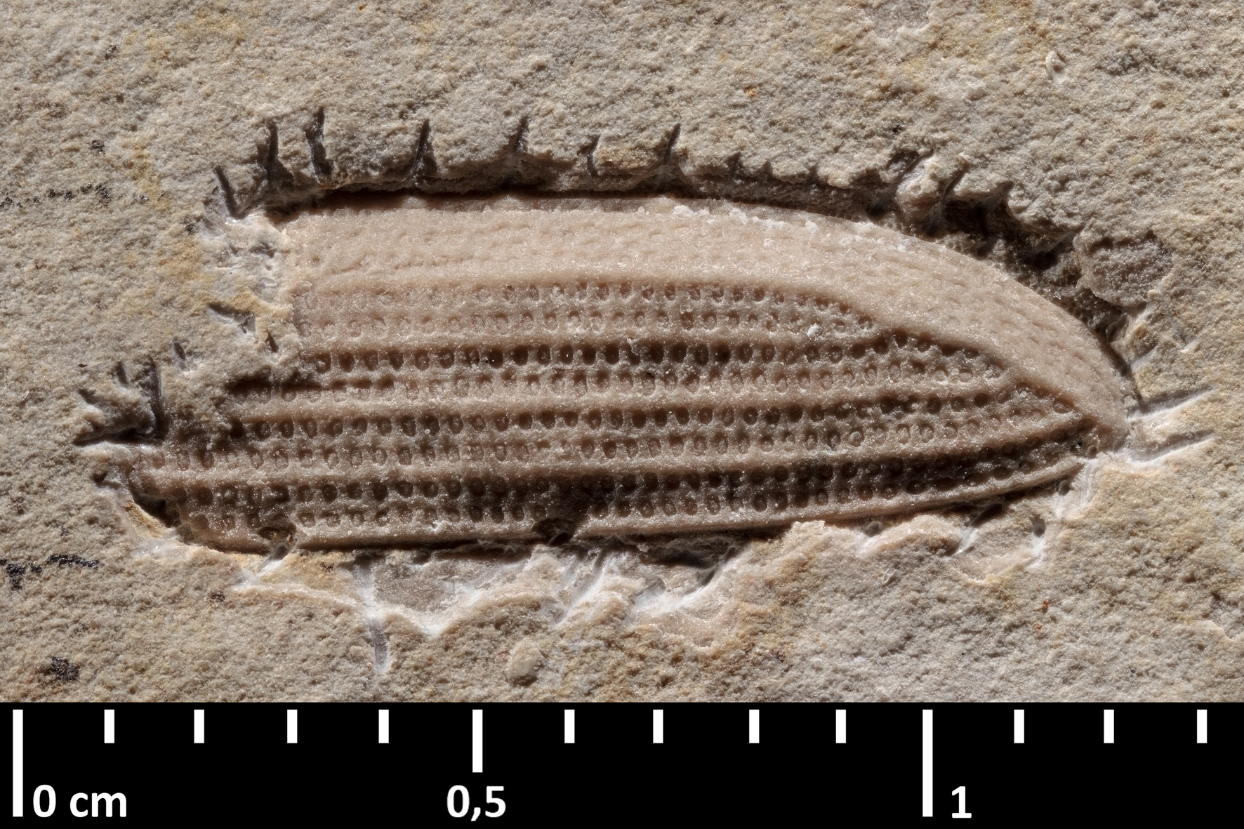 The Cainocups aixensis holotype specimen with indirect lighting. Chattian, Oligcene; Niveau du gypse d'Aix Formation, Aix-en-Provence, Provence-Alpes-Côte d'Azur, France Muséum national d'Histoire naturelle specimen MNHN.F.A51230